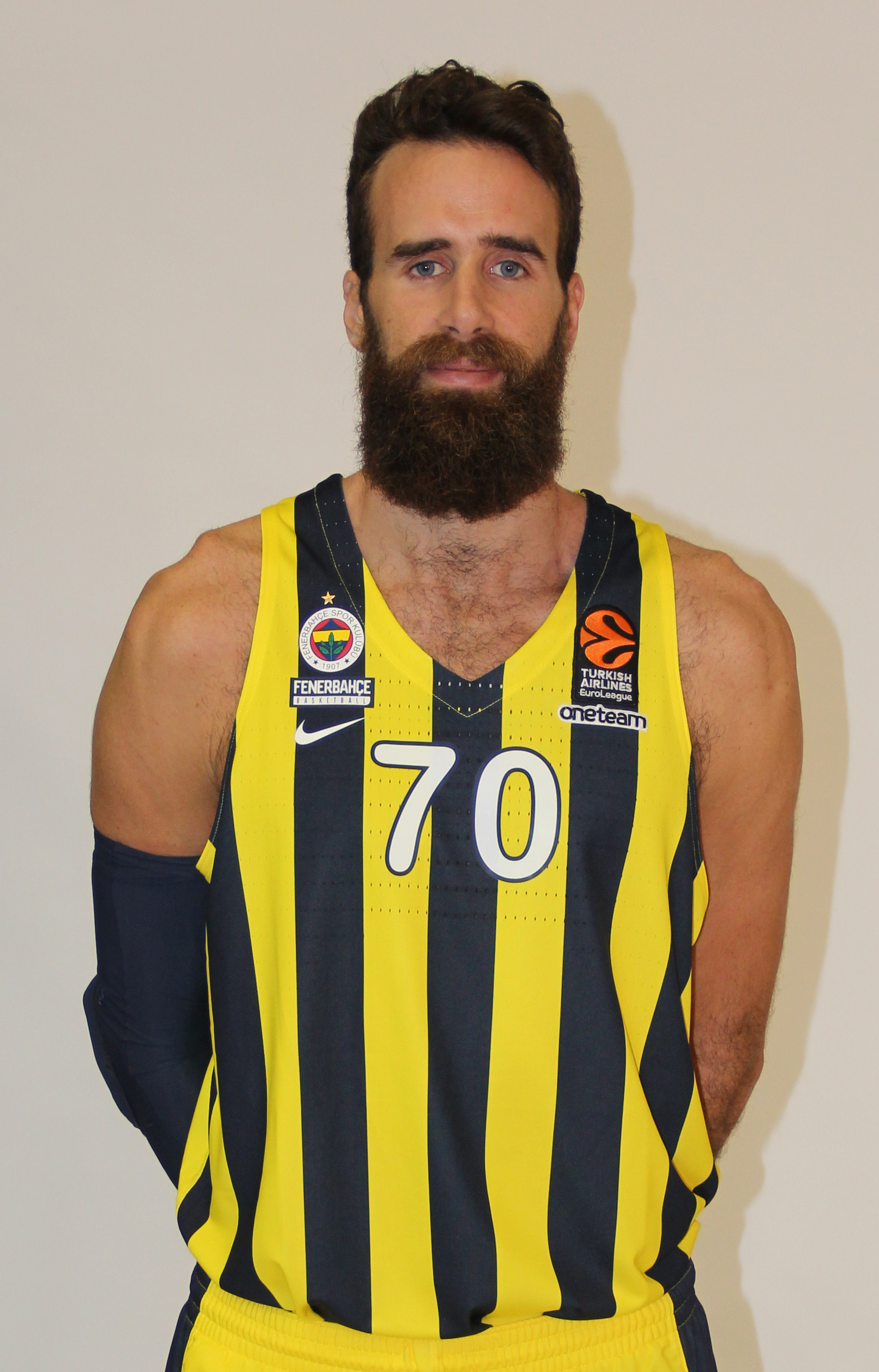 Luigi Datome Fenerbahçe Basketball Media Day 20180925